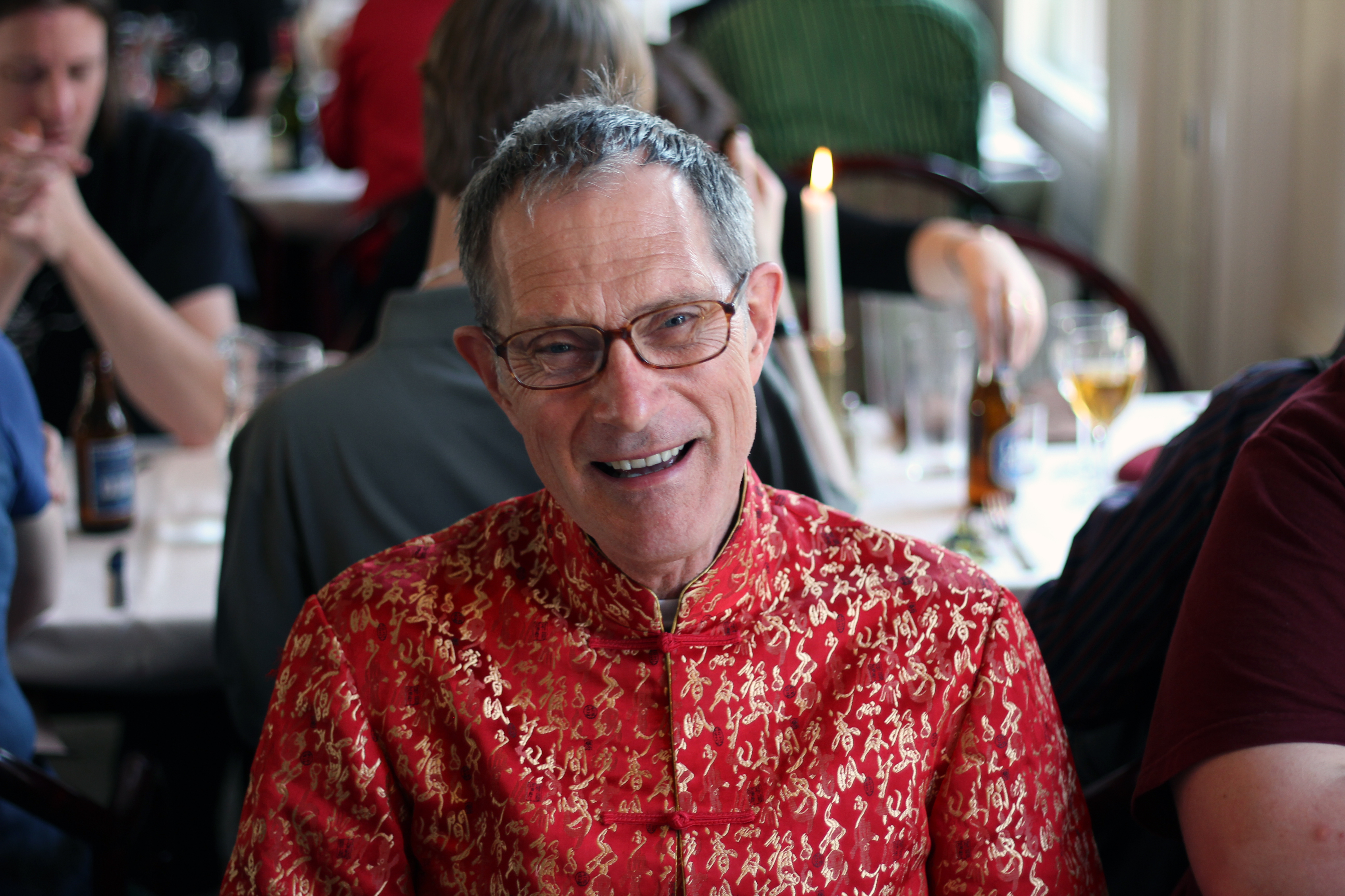 Geoff Ryman at Åcon 4, 2010, Mariehamn.